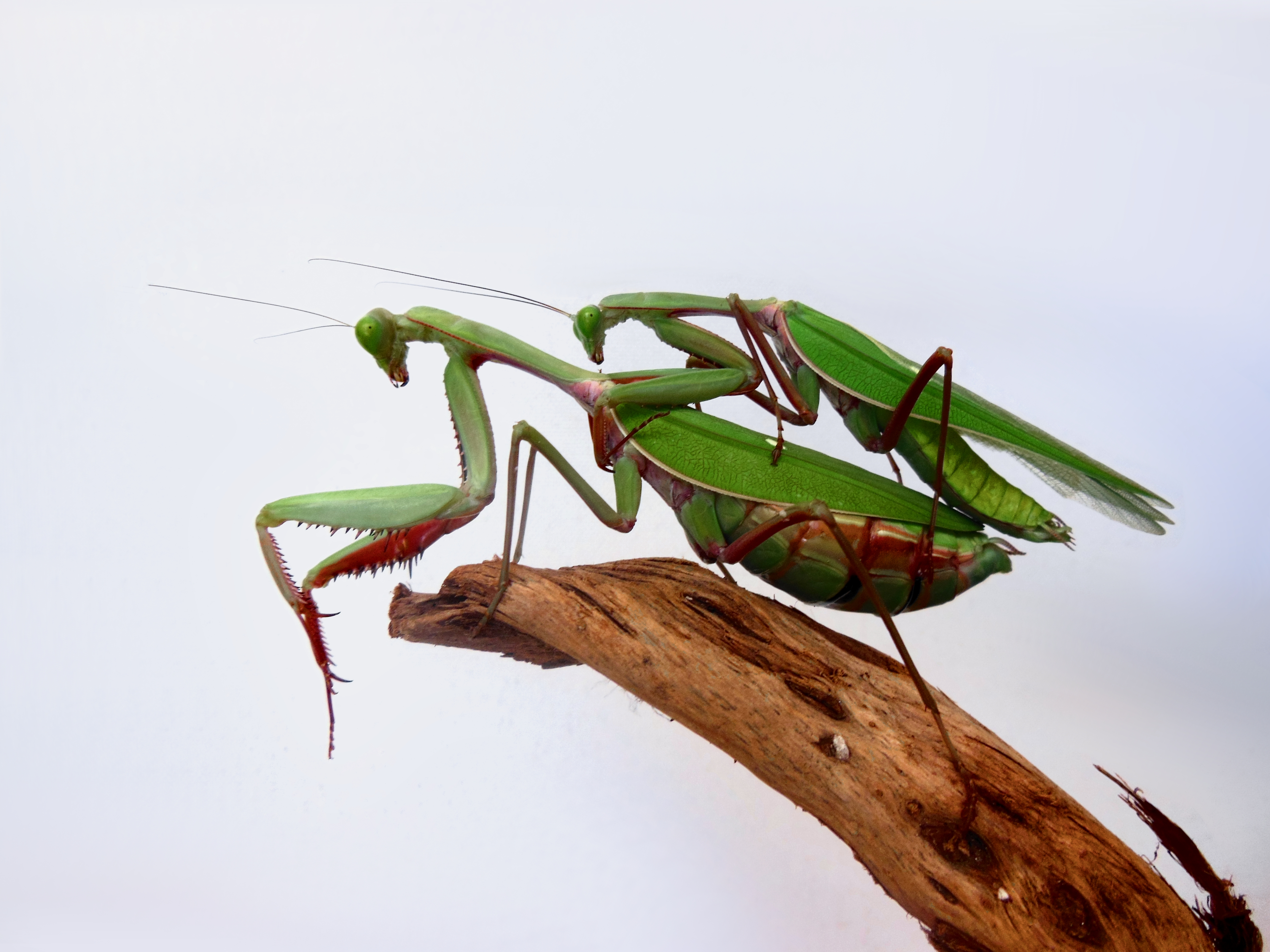 A pair of Giant Australian Rainforest Mantids (Hierodula majuscula) shortly before mating